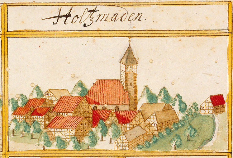 View of Holzmaden from the forest register books created by Andreas Kieser